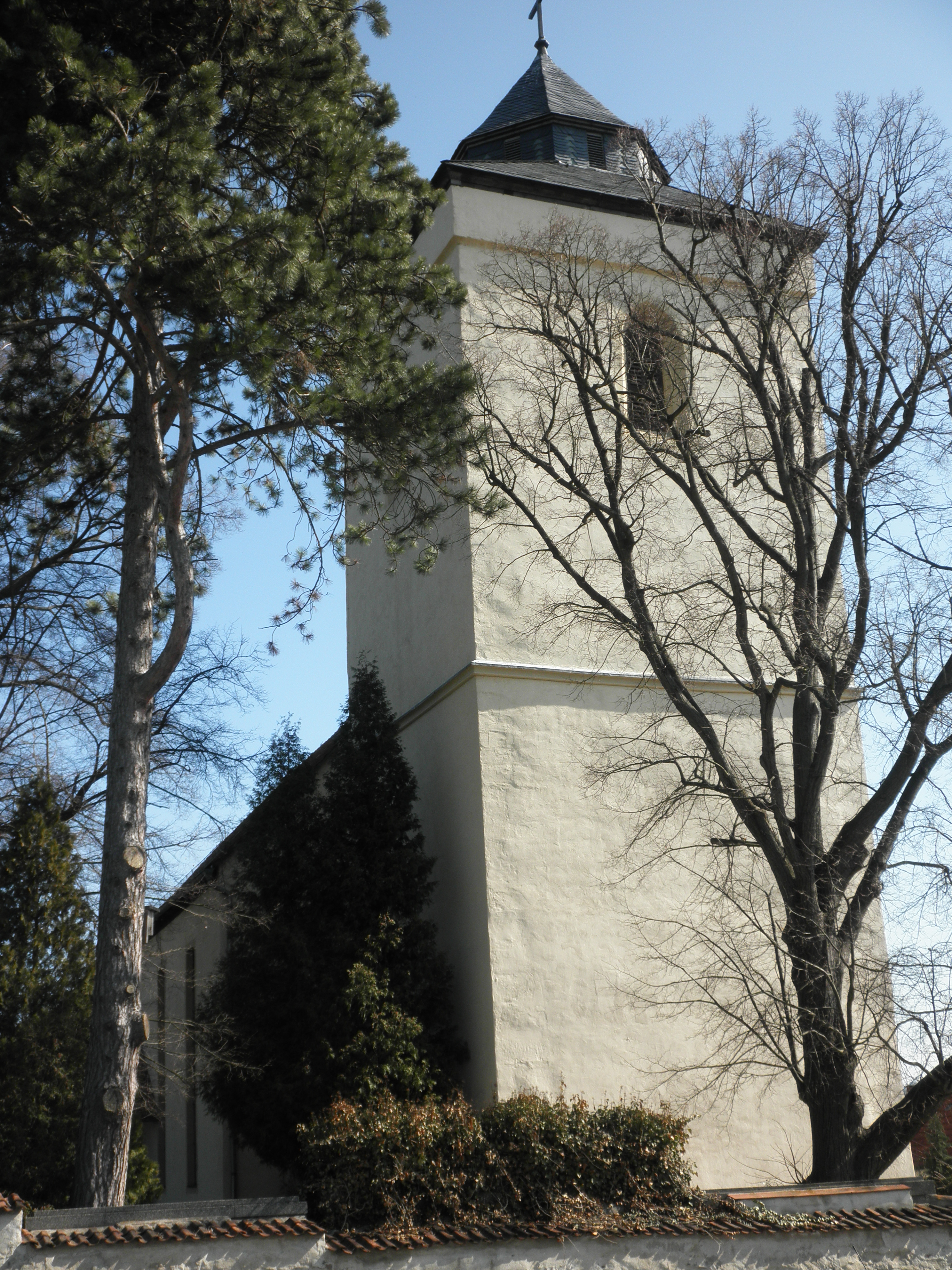 Tower of the church in Krölpa in Thuringia